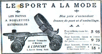 Advertisement for roller skates from 1908